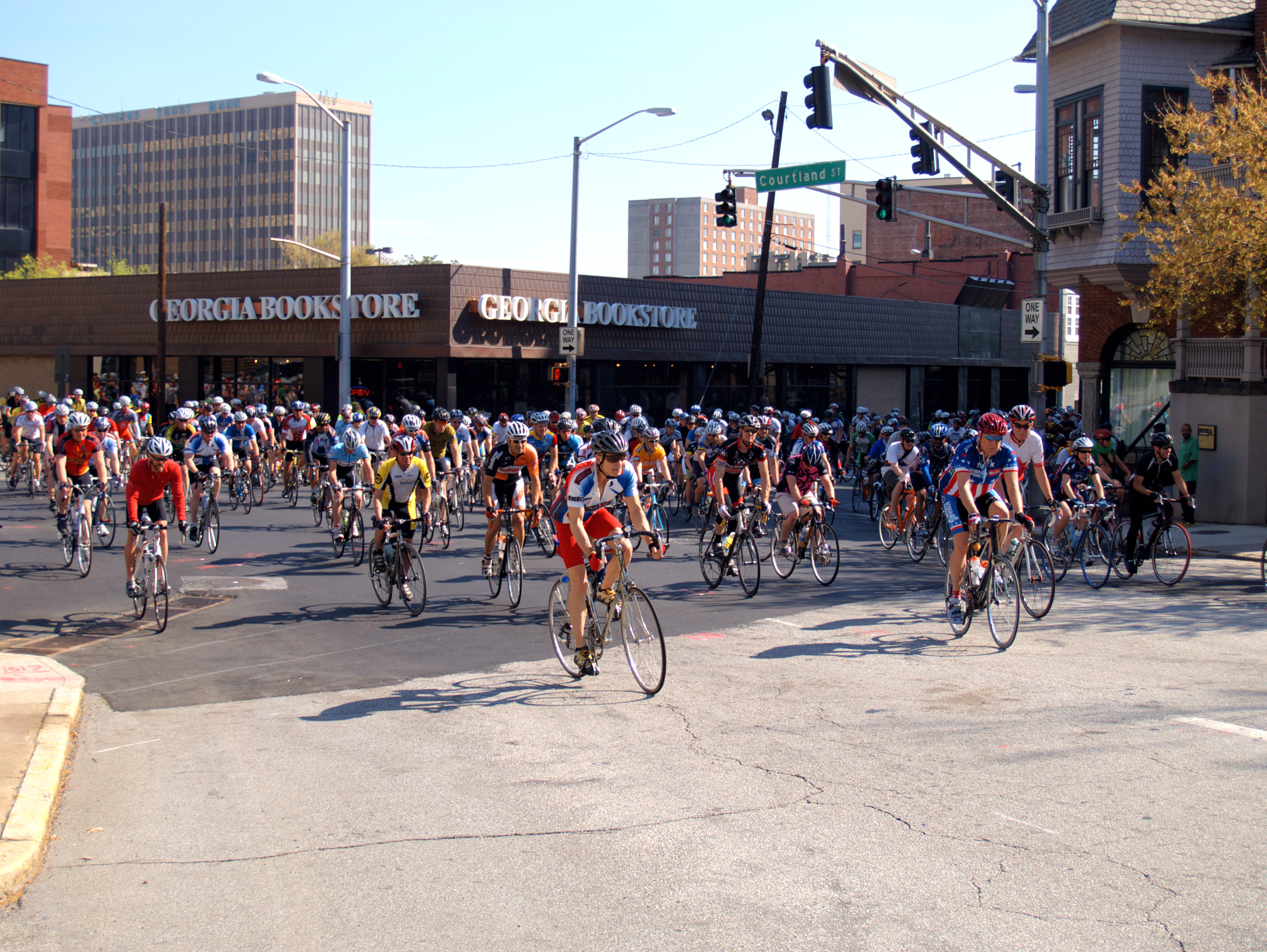 Roswell on the left and Decatur on the right. Riding into the Capital.